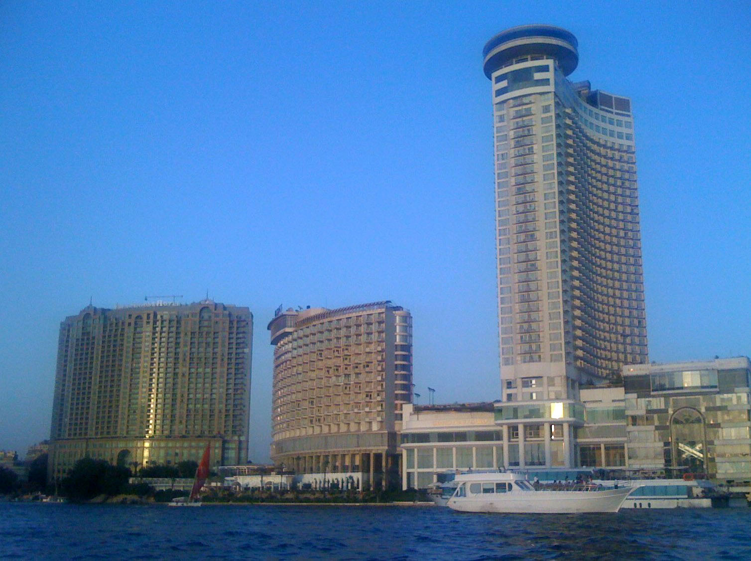 Garden City hotels. Hotels along the Nile, in the Garden City section of Cairo, Egypt.